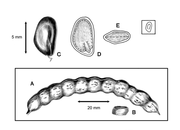 Image of disseminule of Prosopis ruscifolia